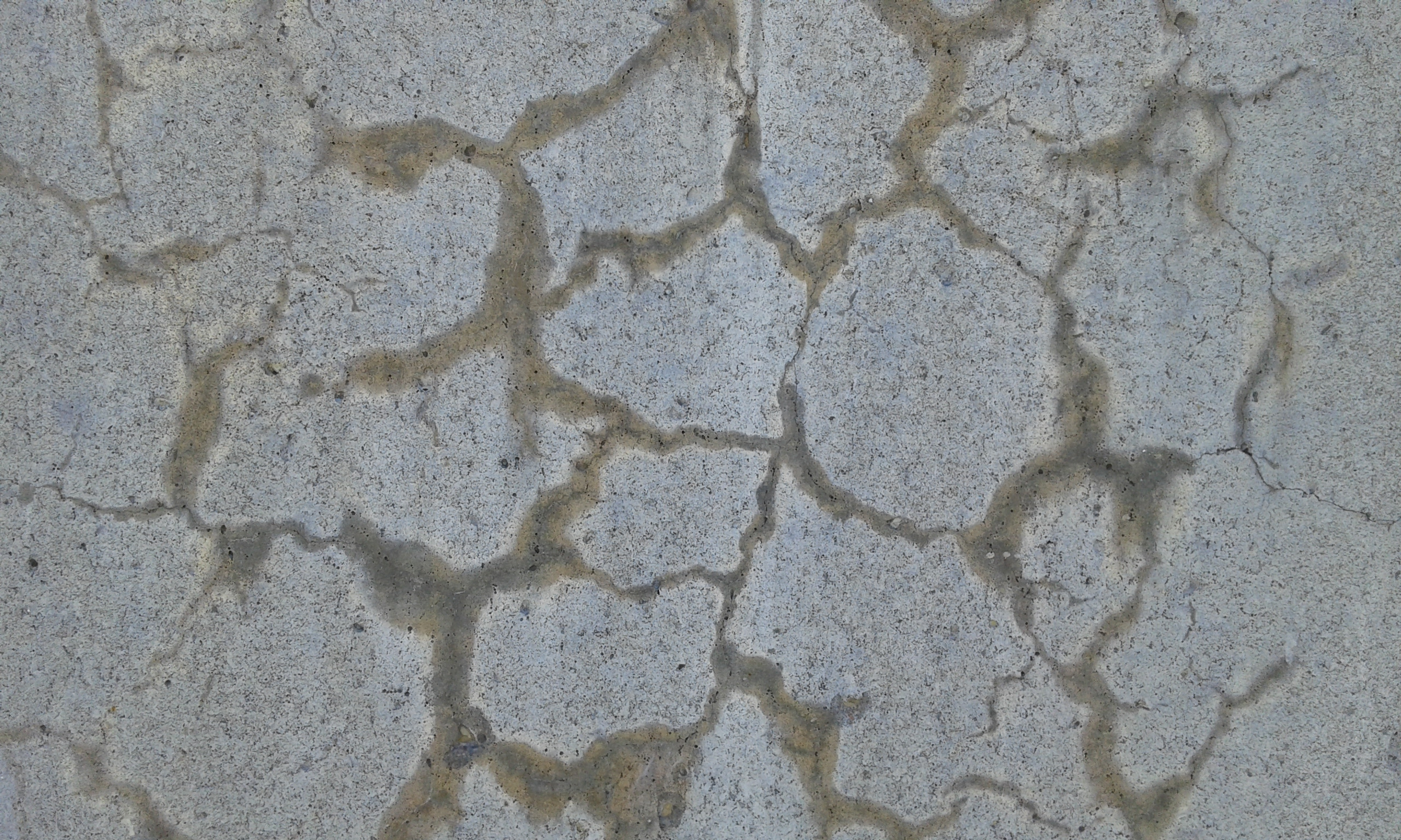 Surface of a concrete pillar of the building of the National Gallery of Canada at Ottawa presenting the typical crack pattern of the alkali-silica reaction (ASR).